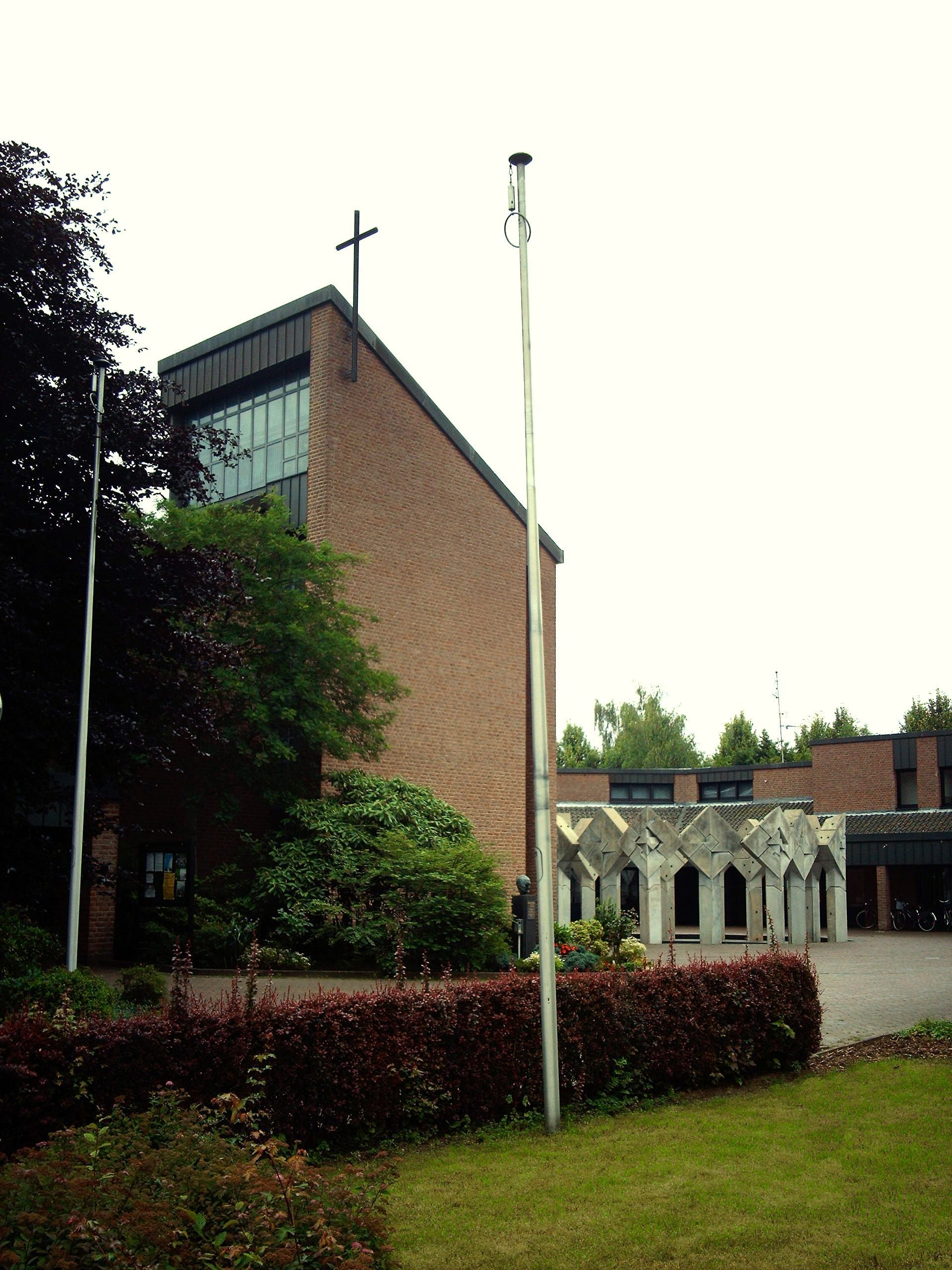 Photo of Catholic church Arnold-Janssen-Kirche in Goch, Germany.